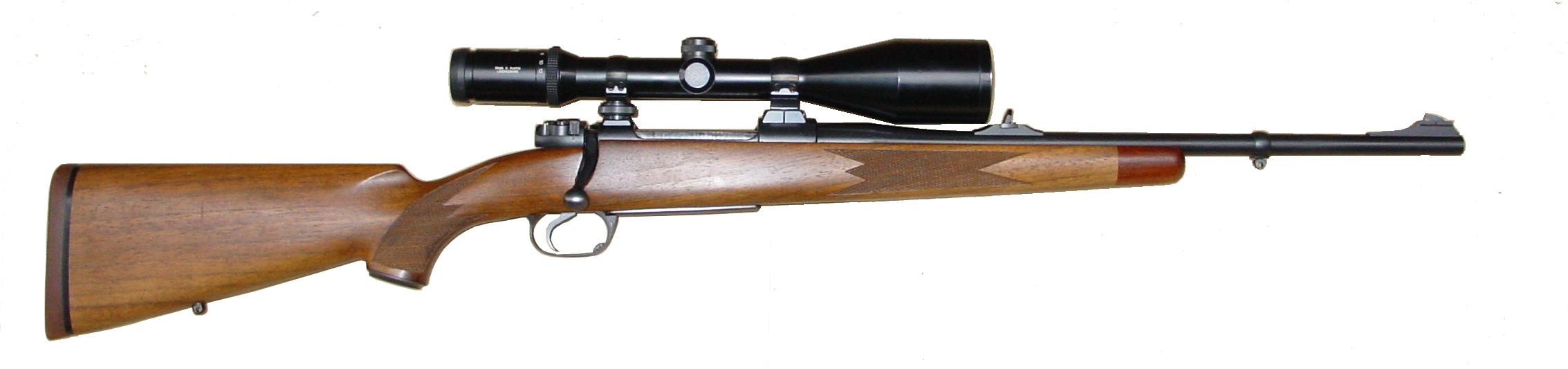 Modern Hunting Rifle "Heym Keilerbüchse"